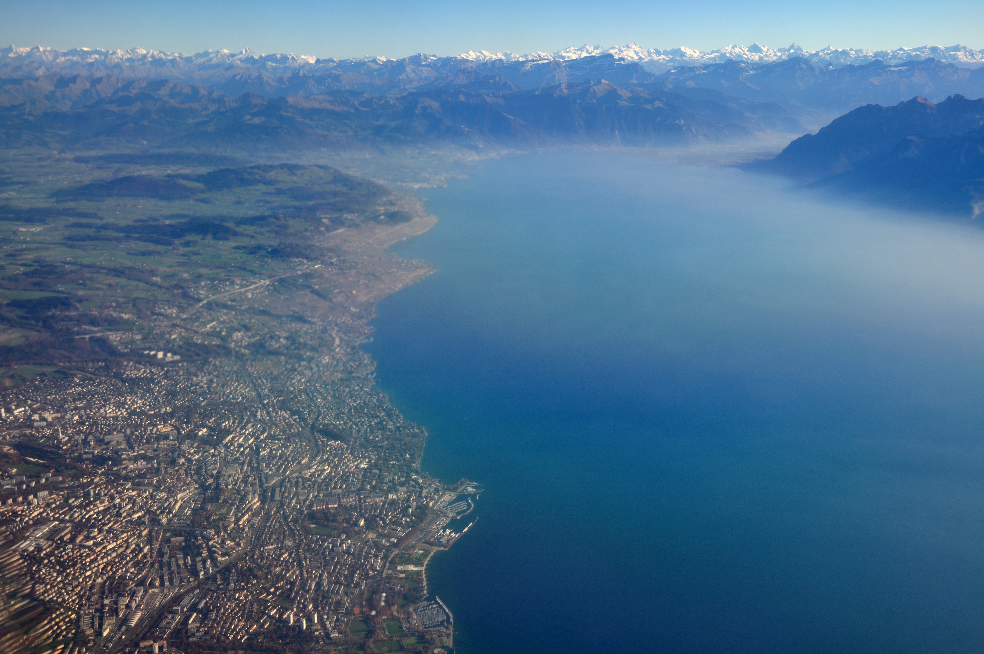 Switzerland, Vaud, aerial view overhead Préverenges on a clear November day on a flight from Prague to Geneva.